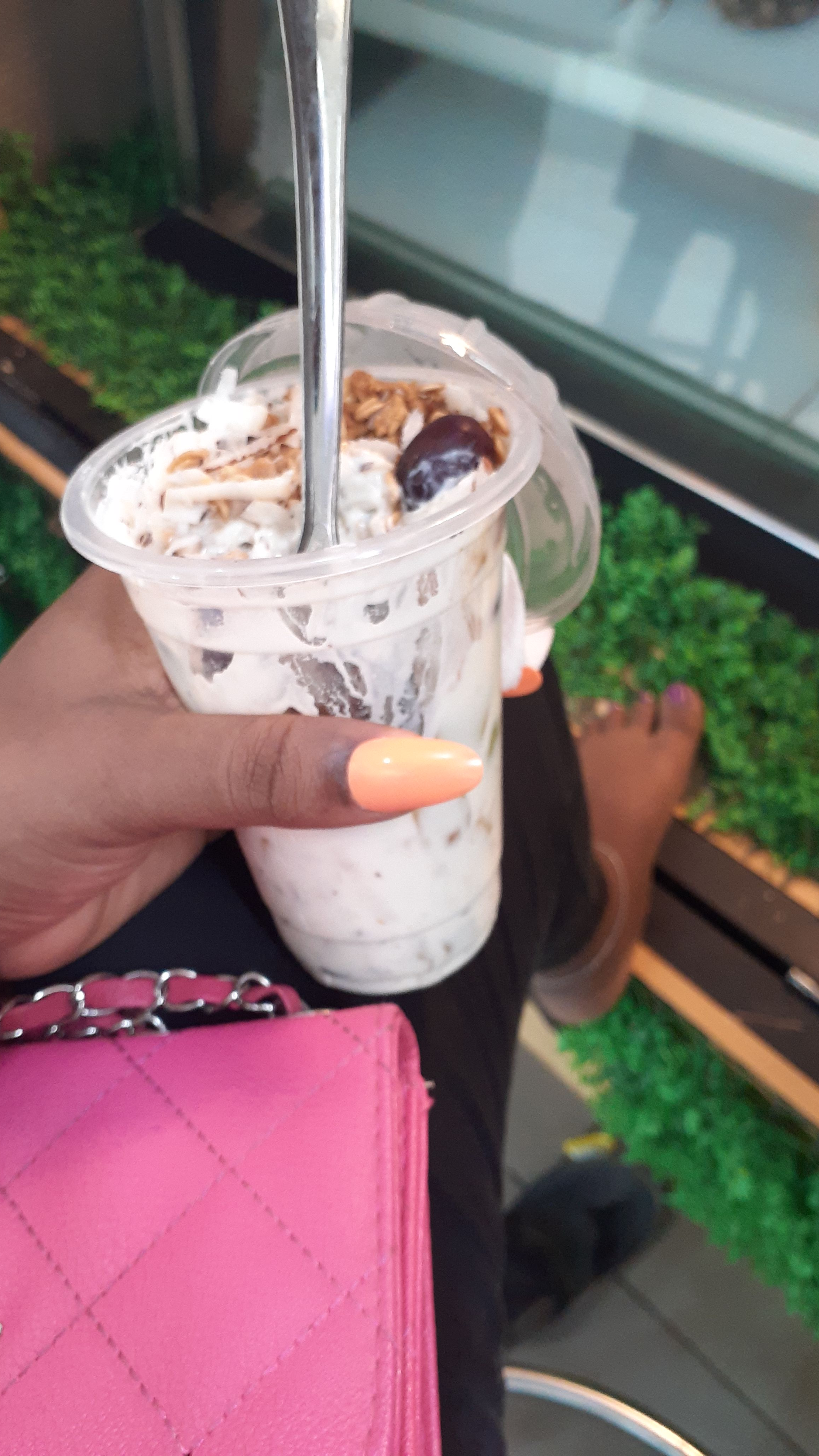 Parfait in Nigeria